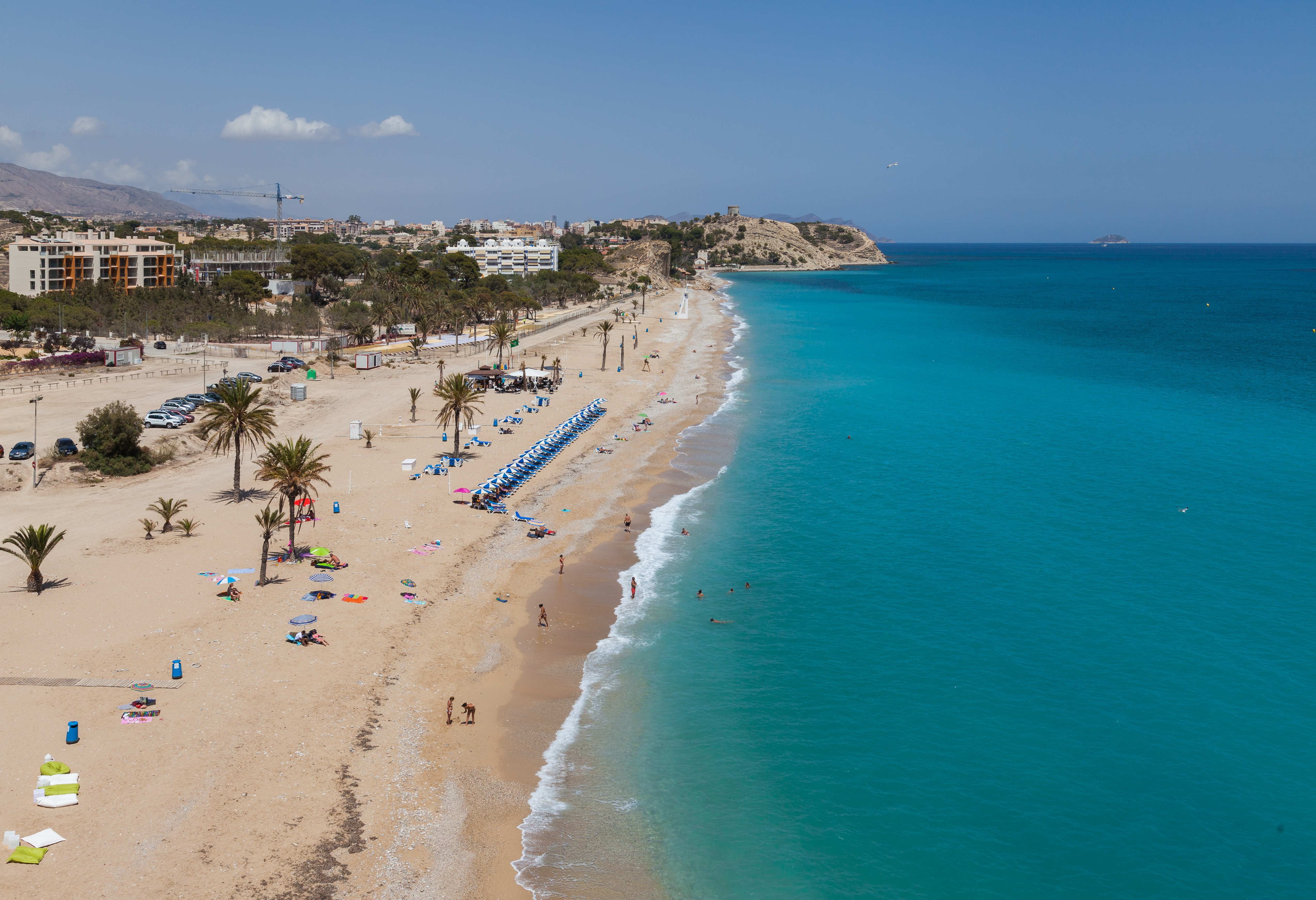 Paradise Beach, Villajoyosa, Spain